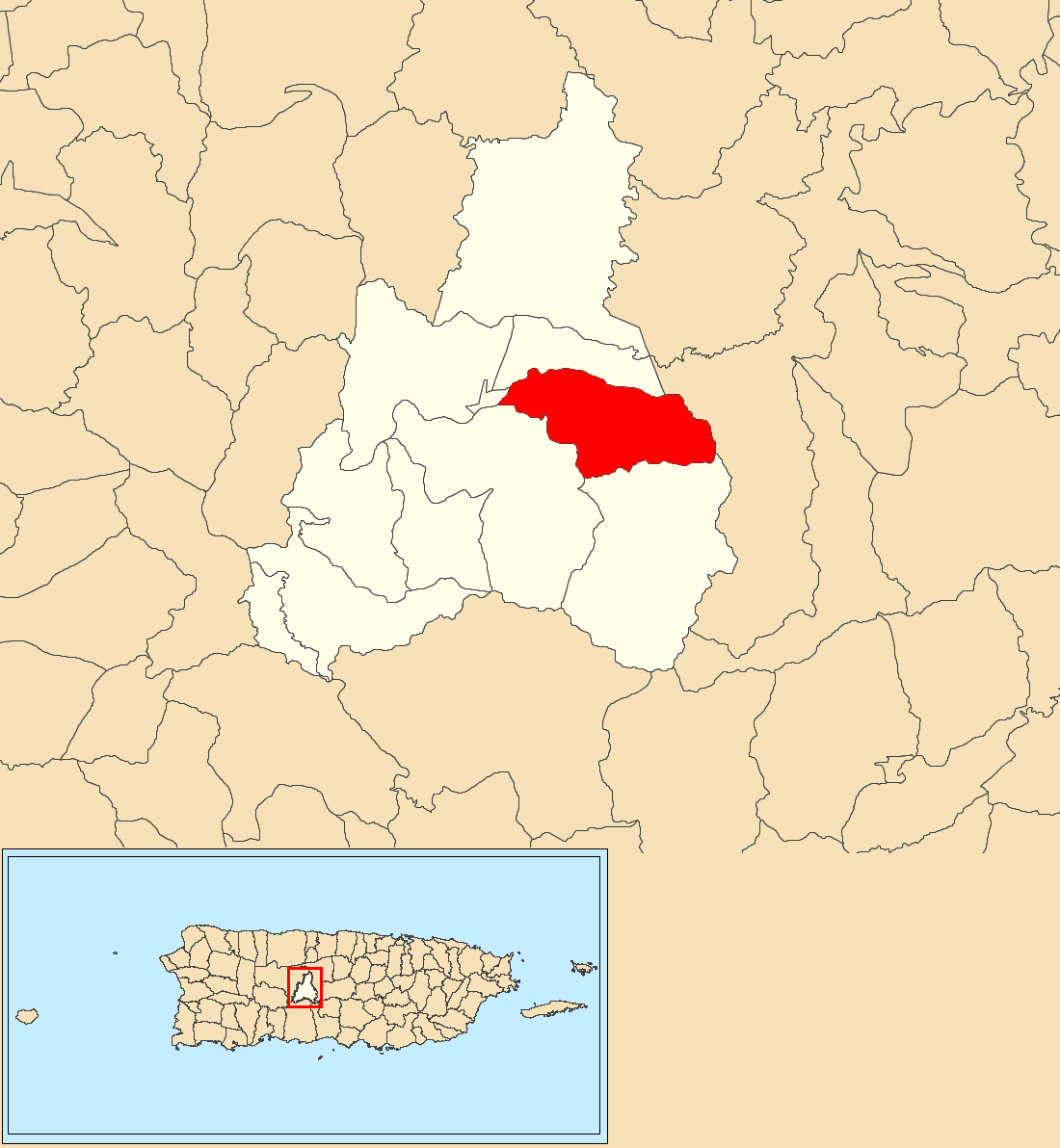 Coabey, Jayuya, Puerto Rico locator map